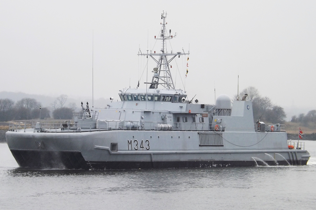 M343 KNM Hinnøy an Oksøy-class Minehunter of the Royal Norwegian Navy